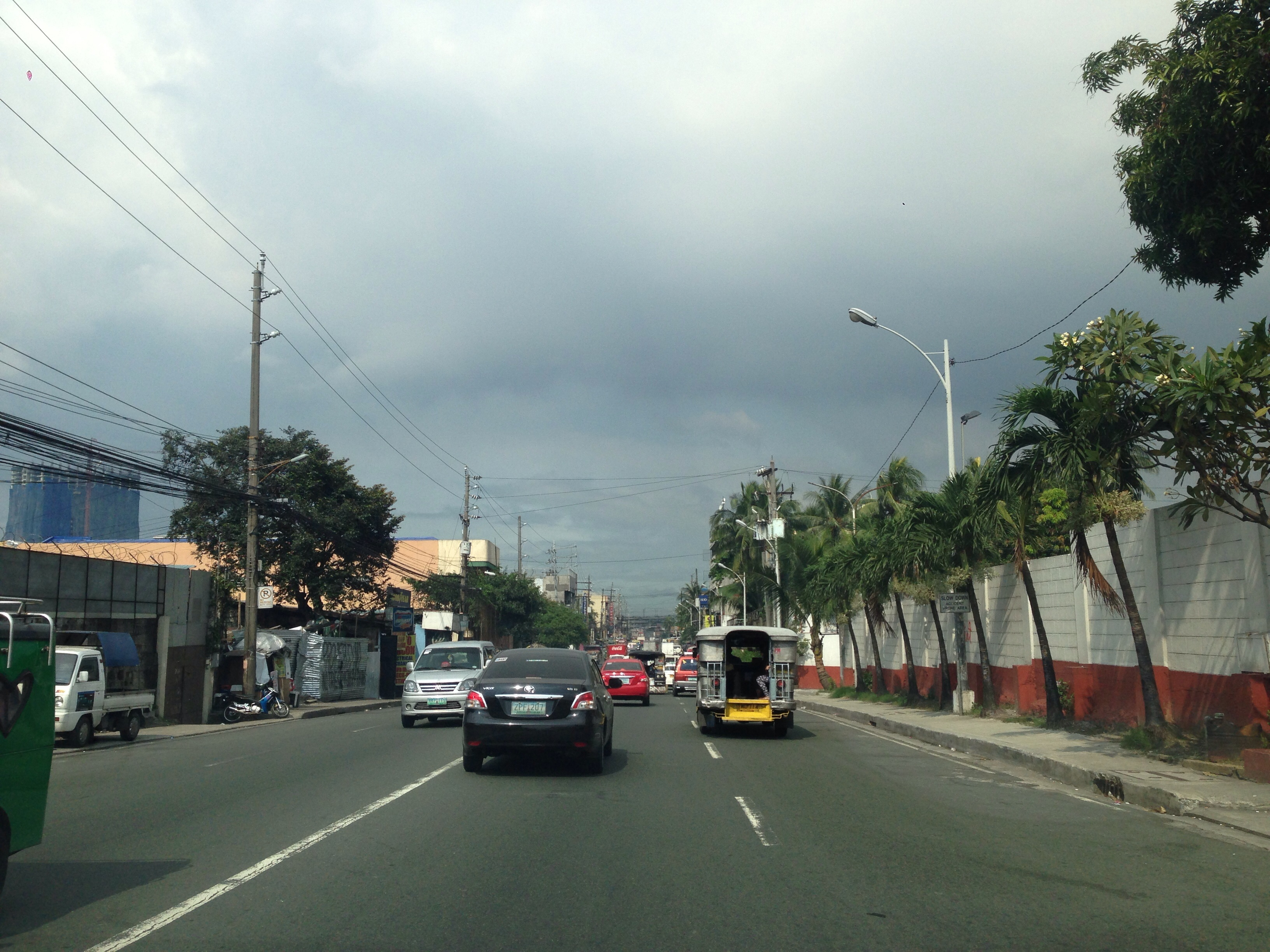 On the northbound lane of Roosevelt Avenue in San Francisco del Monte, Quezon City, Metro Manila, Philippines